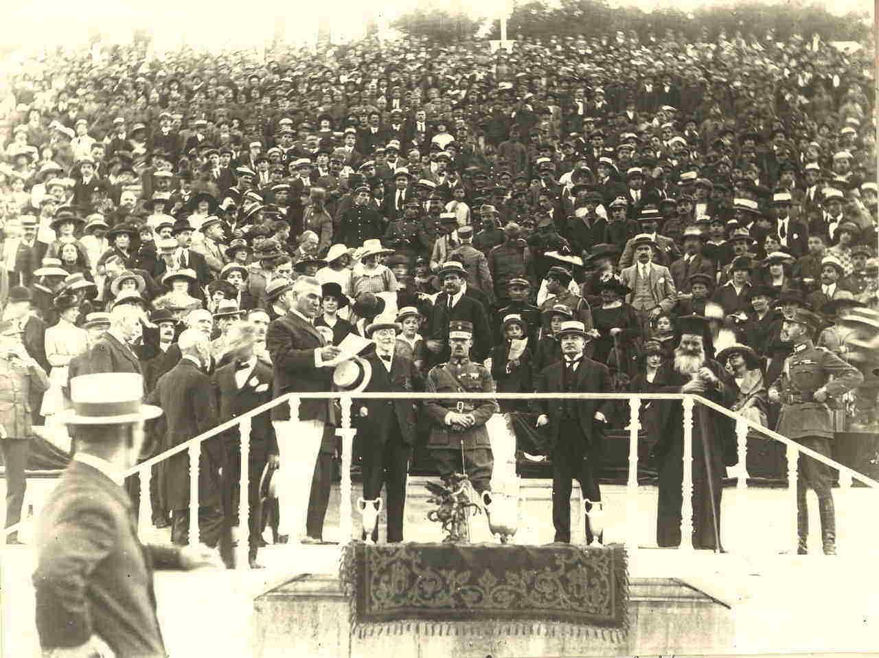 1920 - Party at the Athens Panathenaic Stadium with Eleftherios Venizelos, King Alexander I of Greece and Themistoklis Sophoulis following the signature of the Treaty of Sèvres.